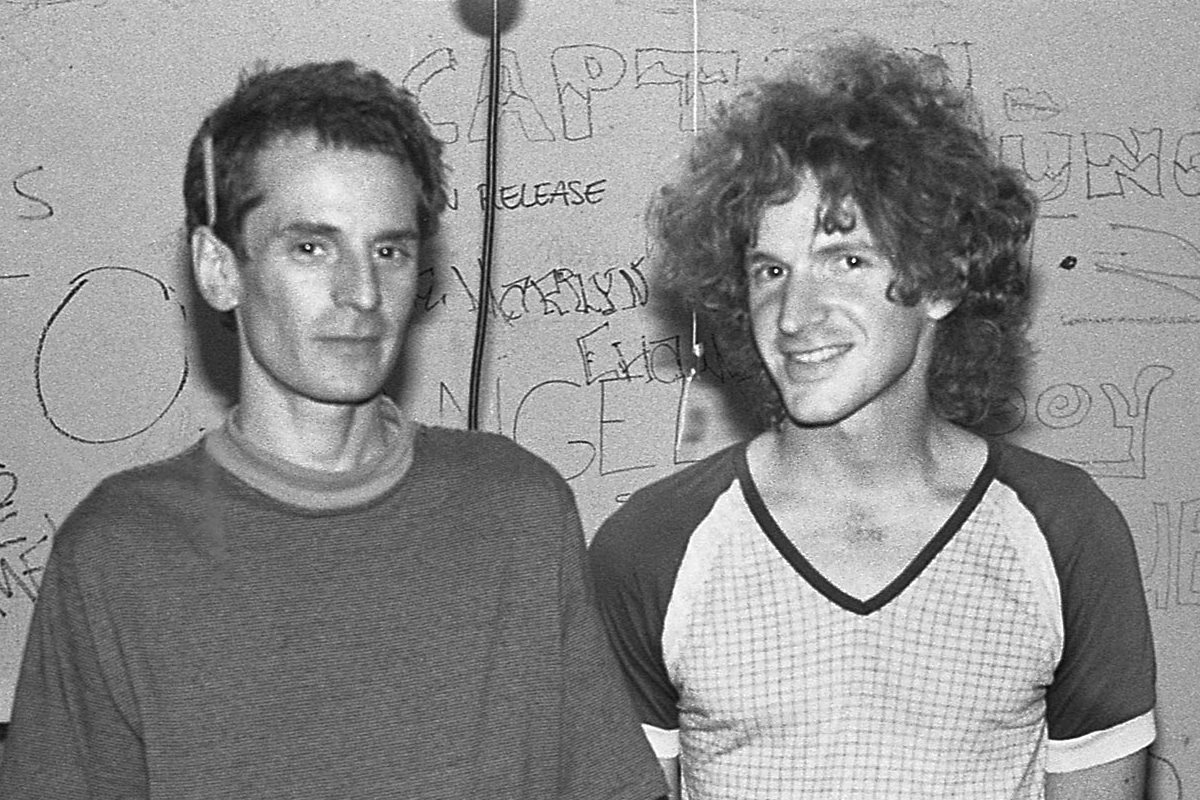 Alex Chilton and Scott Miller of Game Theory, Berkeley, California, 1986.